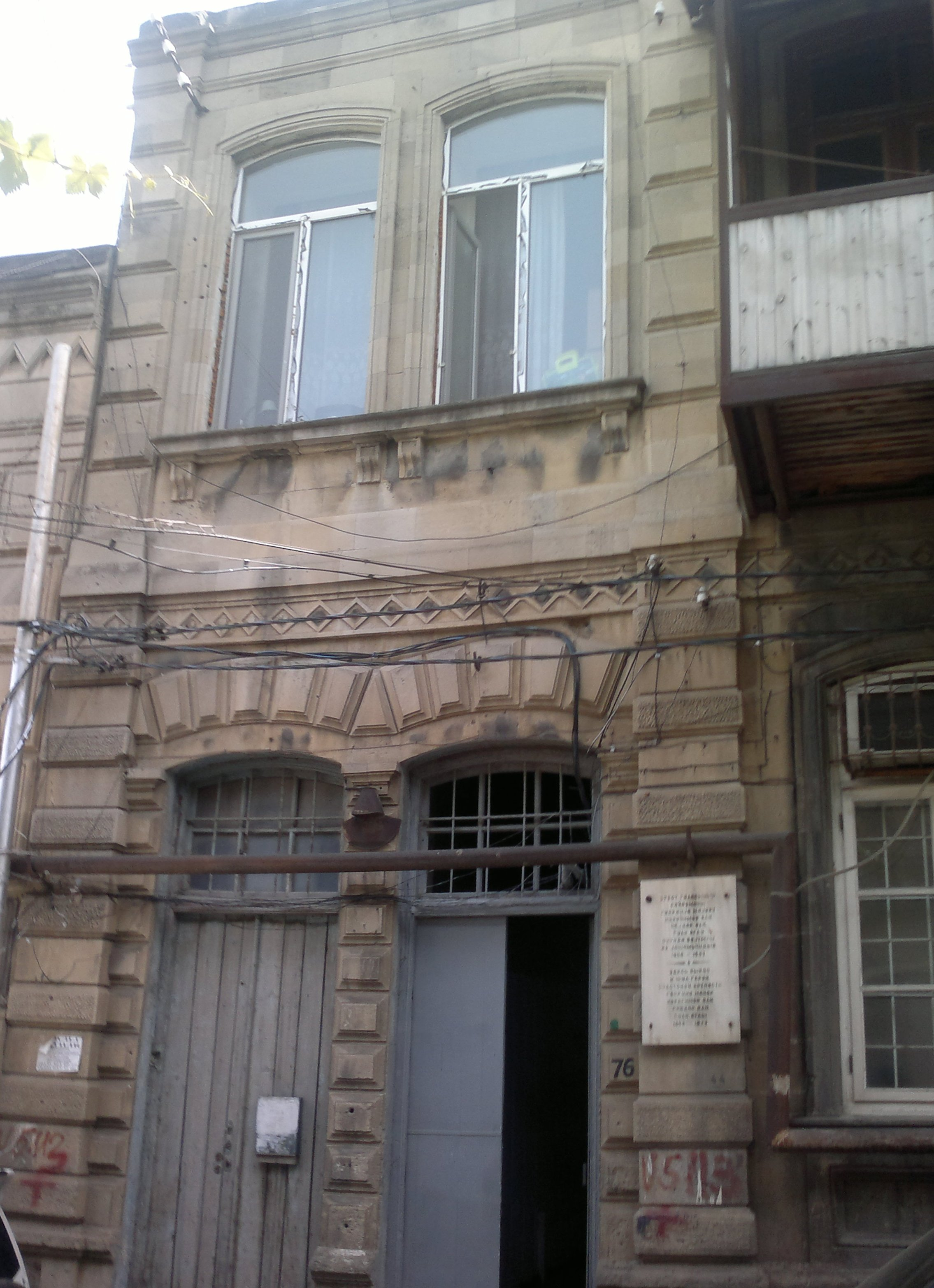 House in Baku where Ali Heydar Ibrahimov lived. Bashir Safaroglu Street.